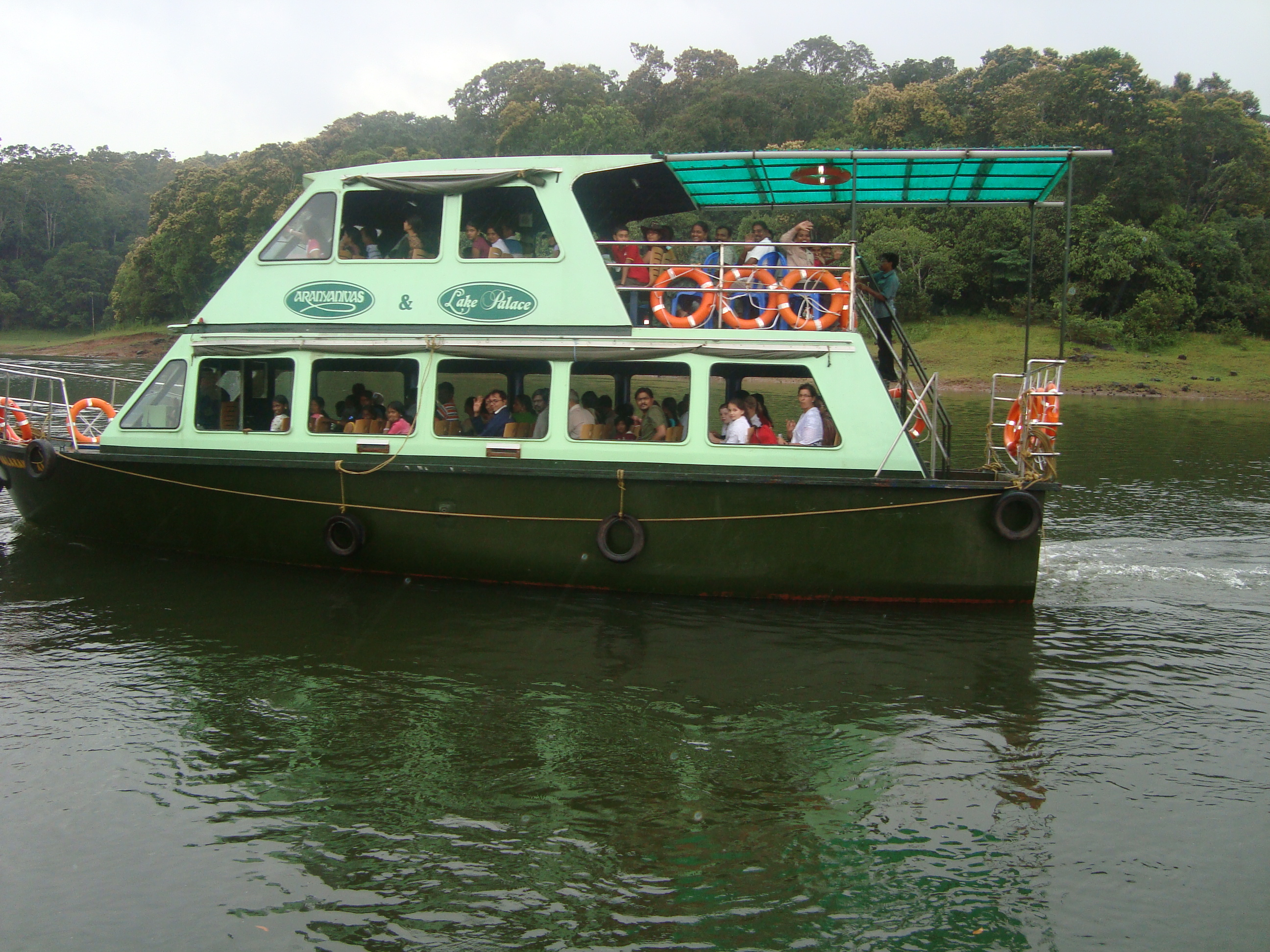 Passengers of ill-fated boat